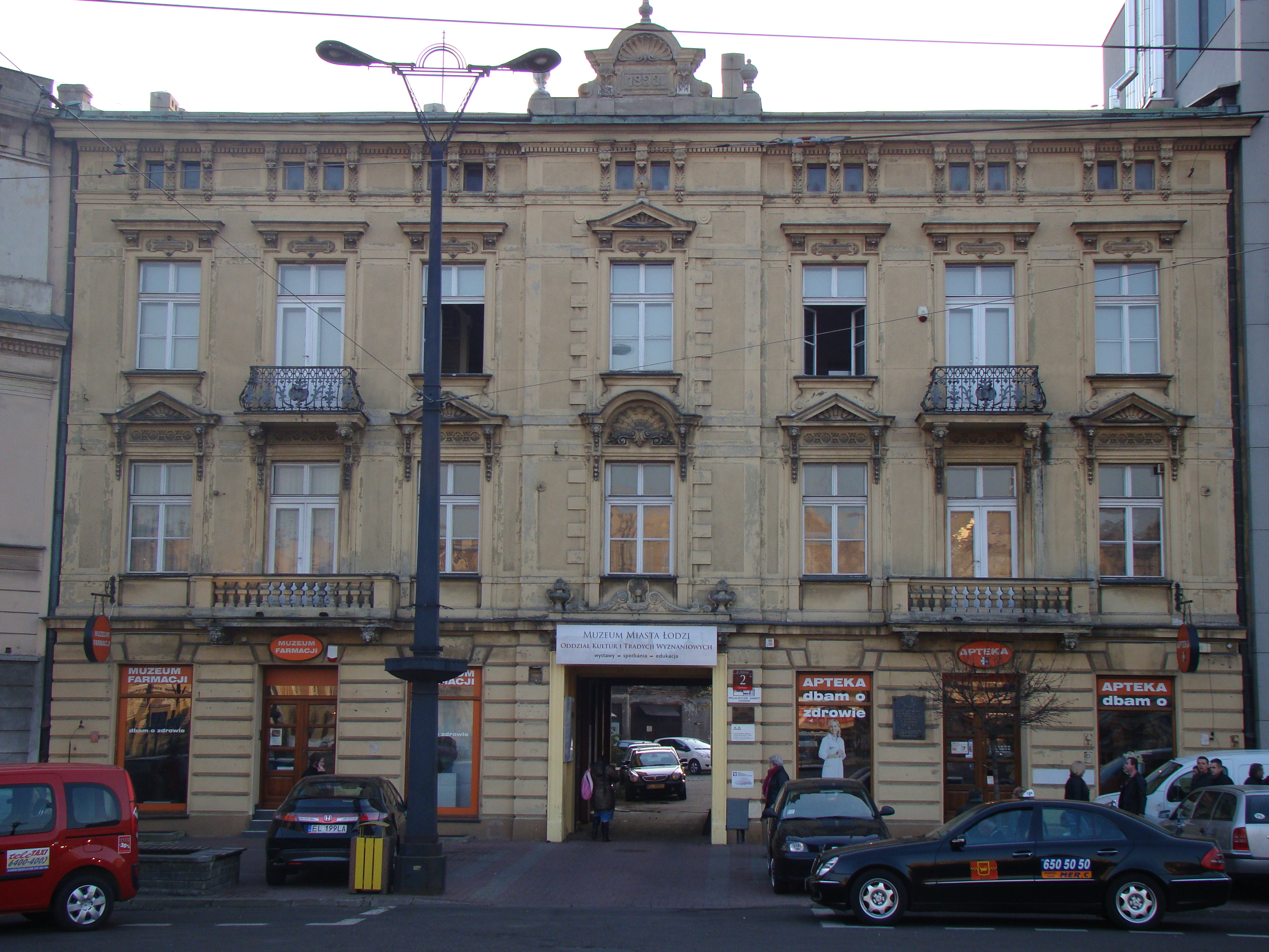 Tenement house in Łódź